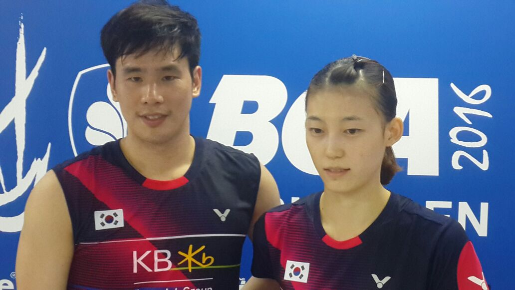 Ko Sung-hyun (left) and Kim Ha-na during a press conference at the 2016 Indonesia Open